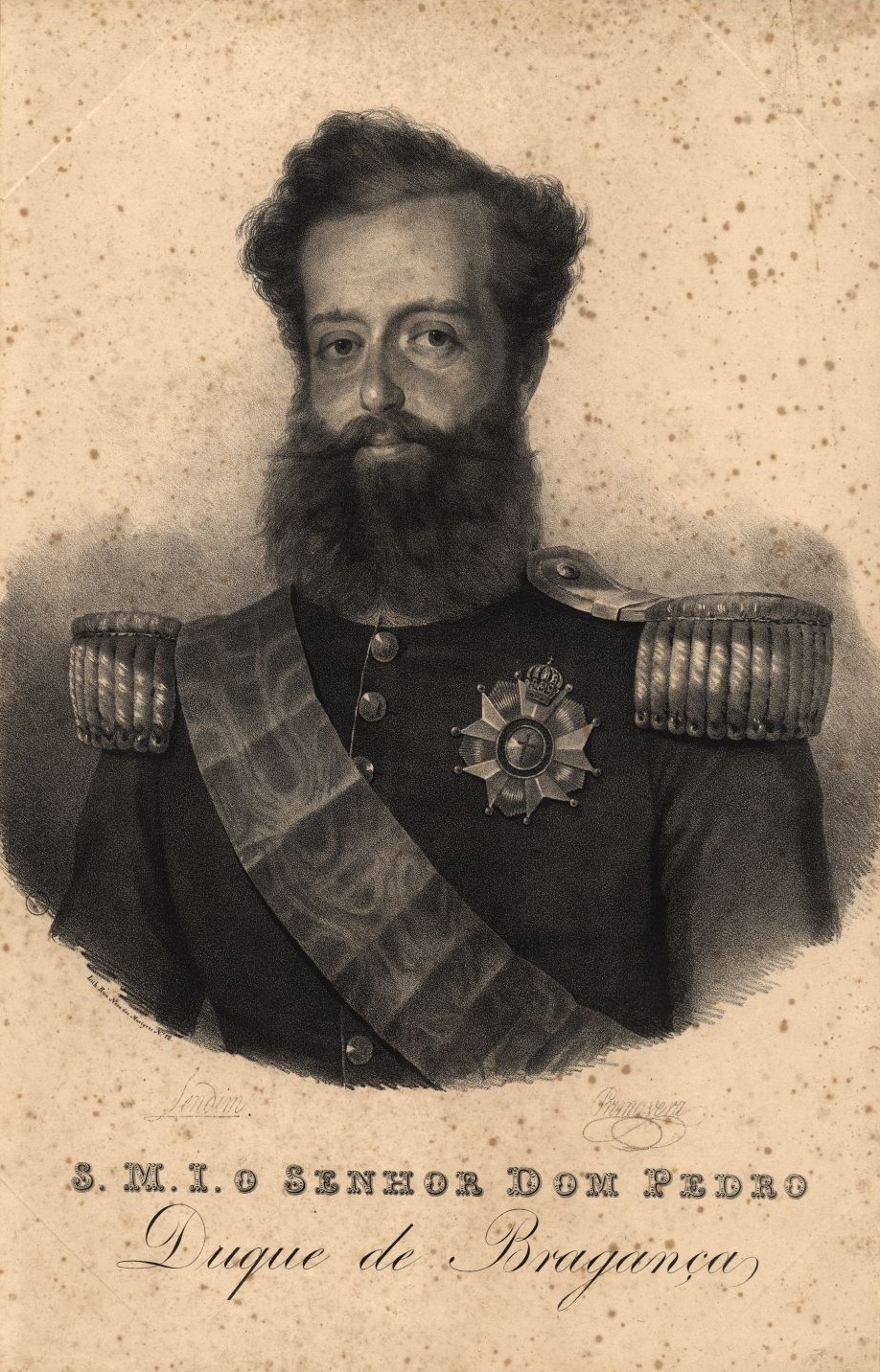 Dom Pedro, Duke of Braganza (formerly Emperor Dom Pedro I of Brazil and King Dom Pedro IV of Portugal), 1833. This is perhaps the most realistic/trustworthy artistic representation to show the true appearance/face of Dom Pedro.